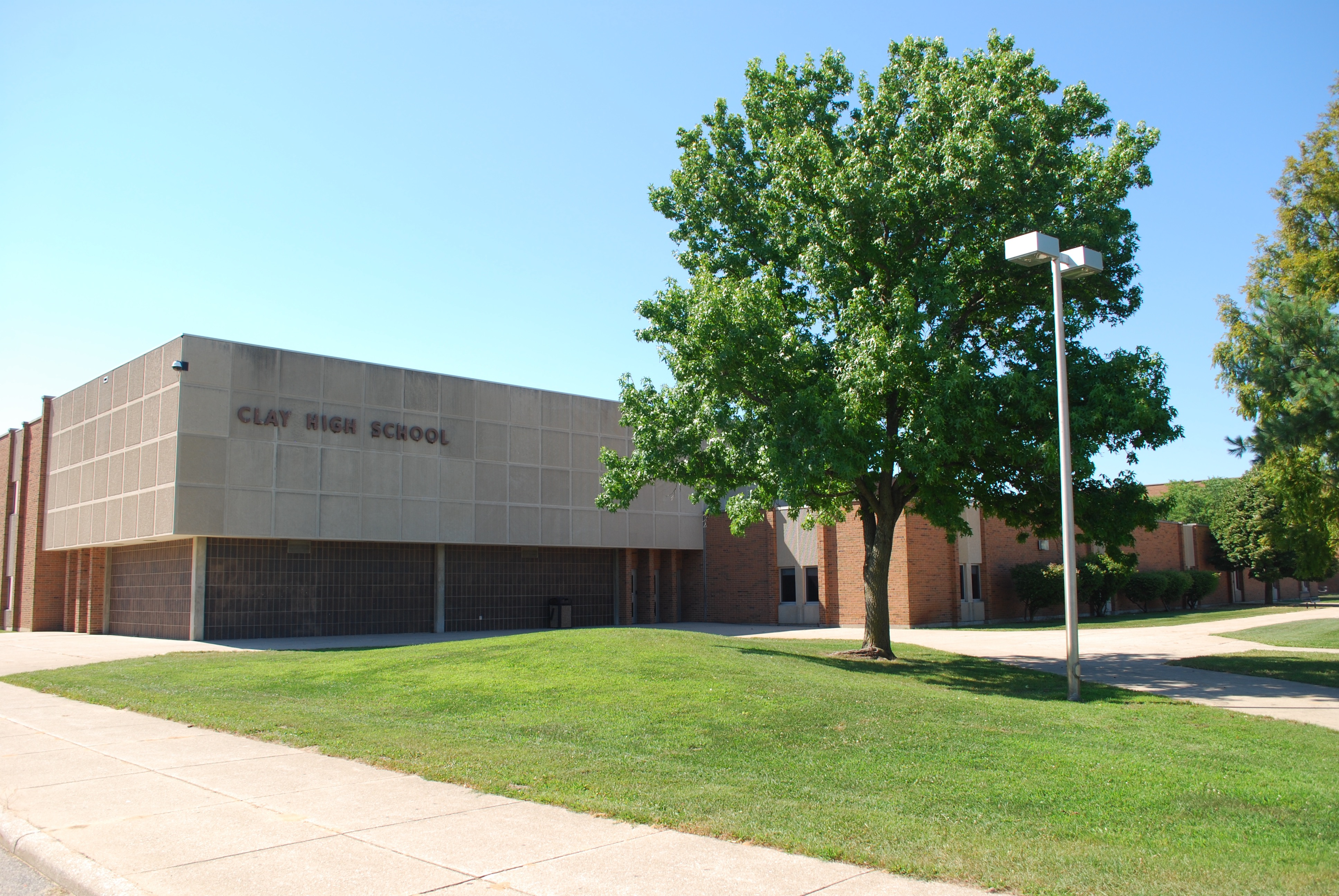 Clay High School in South Bend, Indiana. Photo taken 30 July 2015.